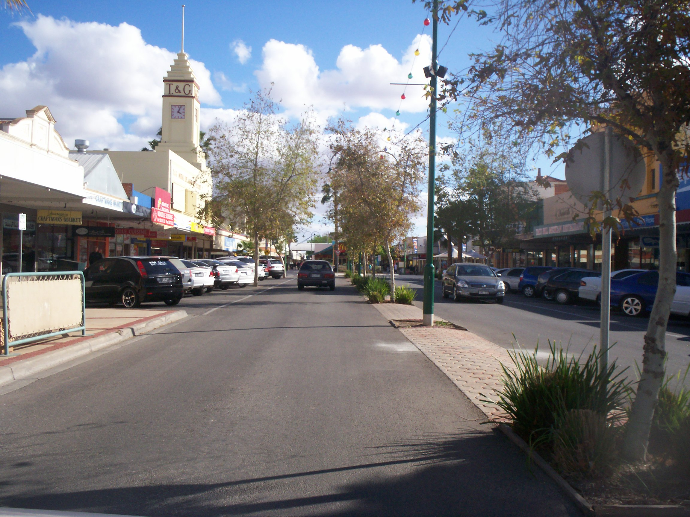 Langree Ave, Mildura, Victoria, Australia. Photograph taken by myself, September 26, 2007.